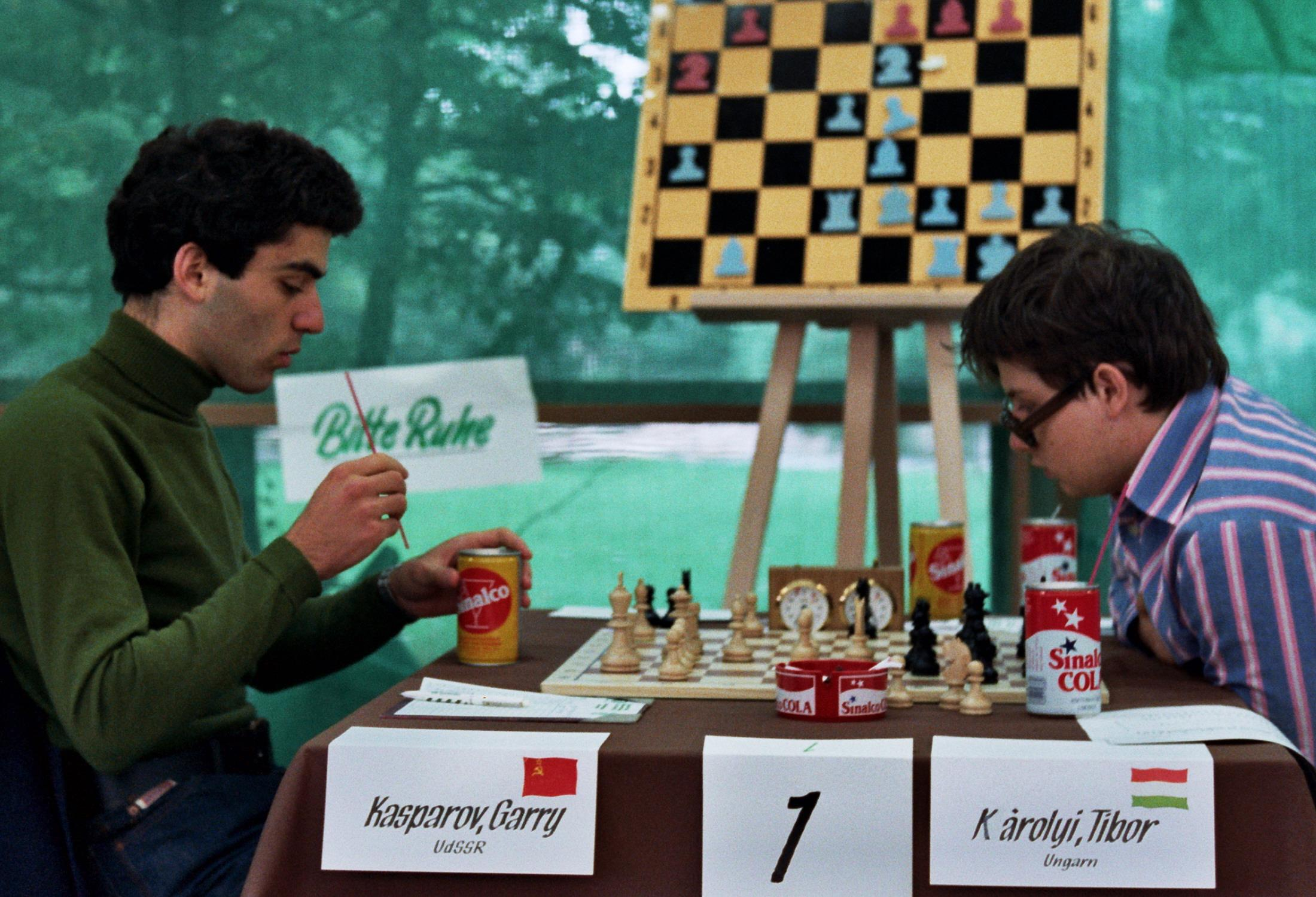 Garry Kasparov - Tibor Karolyi, Junior Chess World Championship 1980 at Dortmund, Photographer Gerhard Hund.